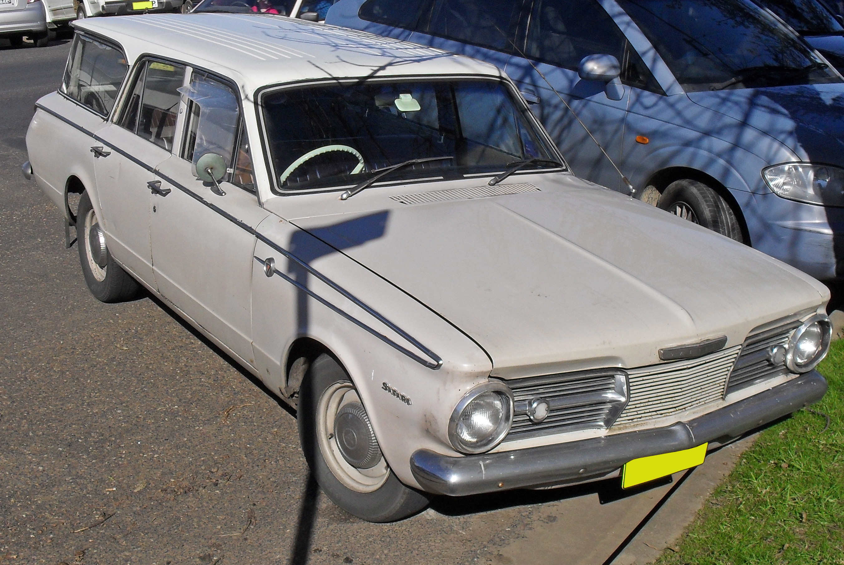 1965 Chrysler Valiant (AP6) Safari station wagon photographed in New South Wales, Australia.